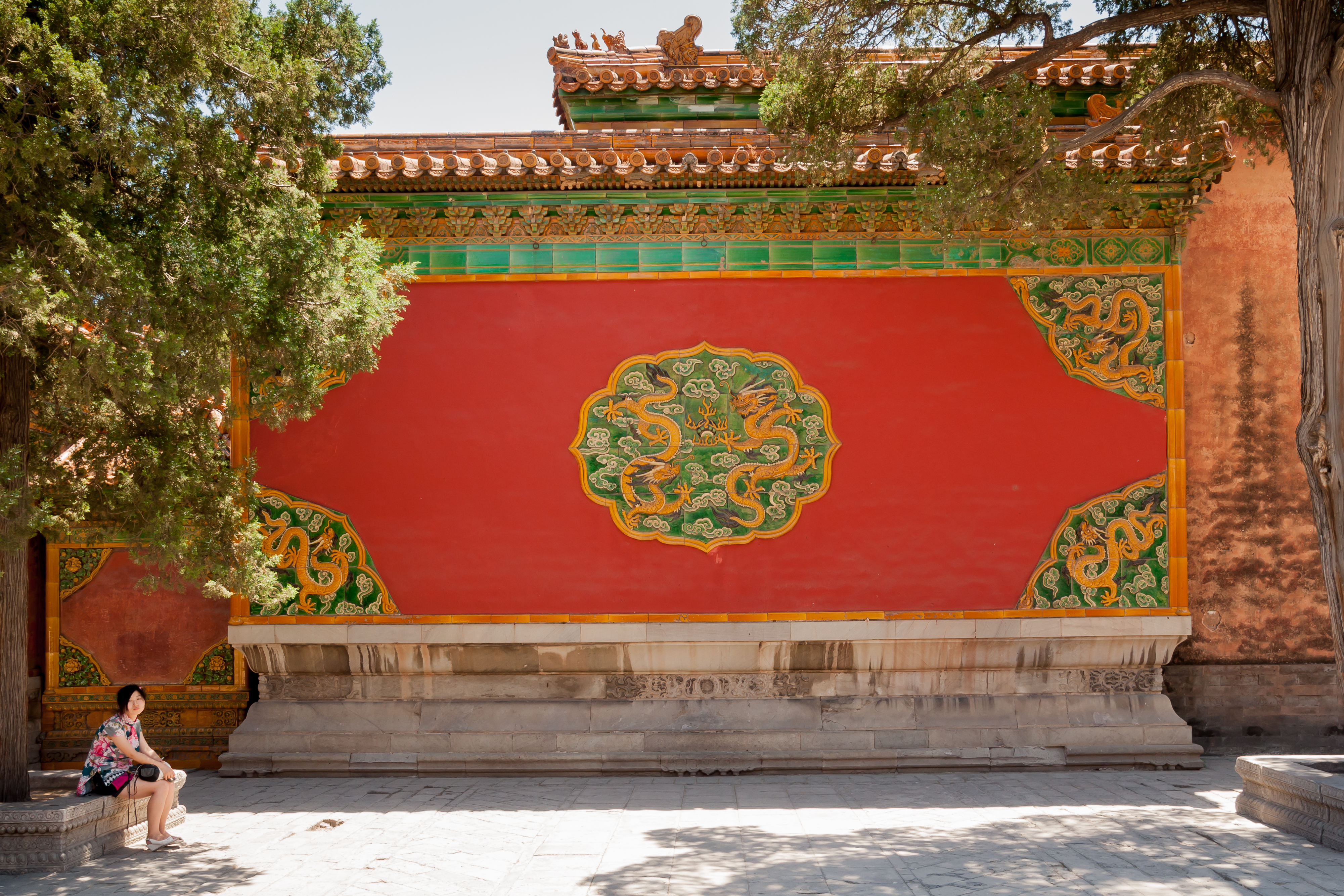 Beijing, China: Red wall with tiles in the Forbidden City.